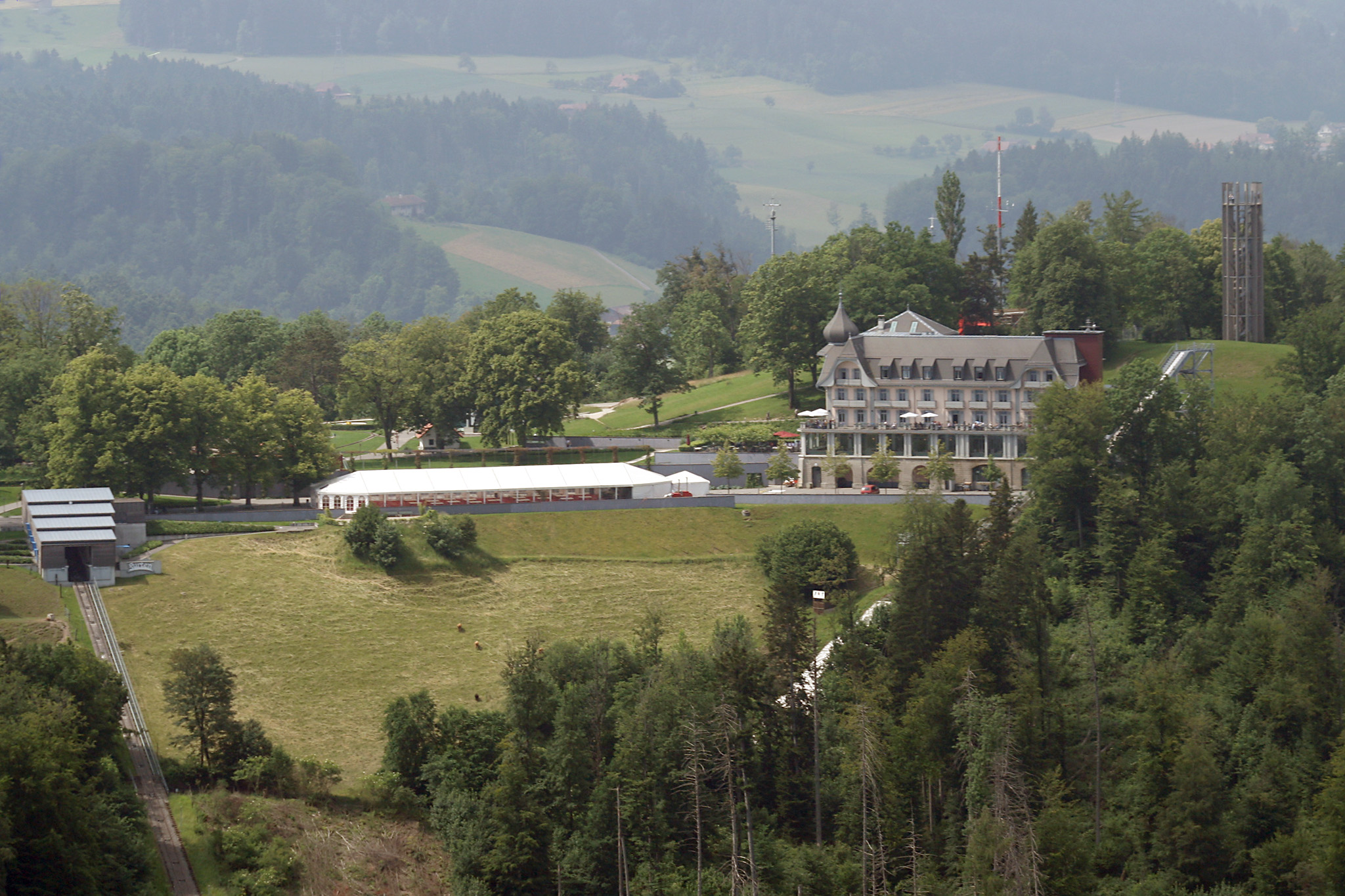 aerial view of Gurten, Switzerland